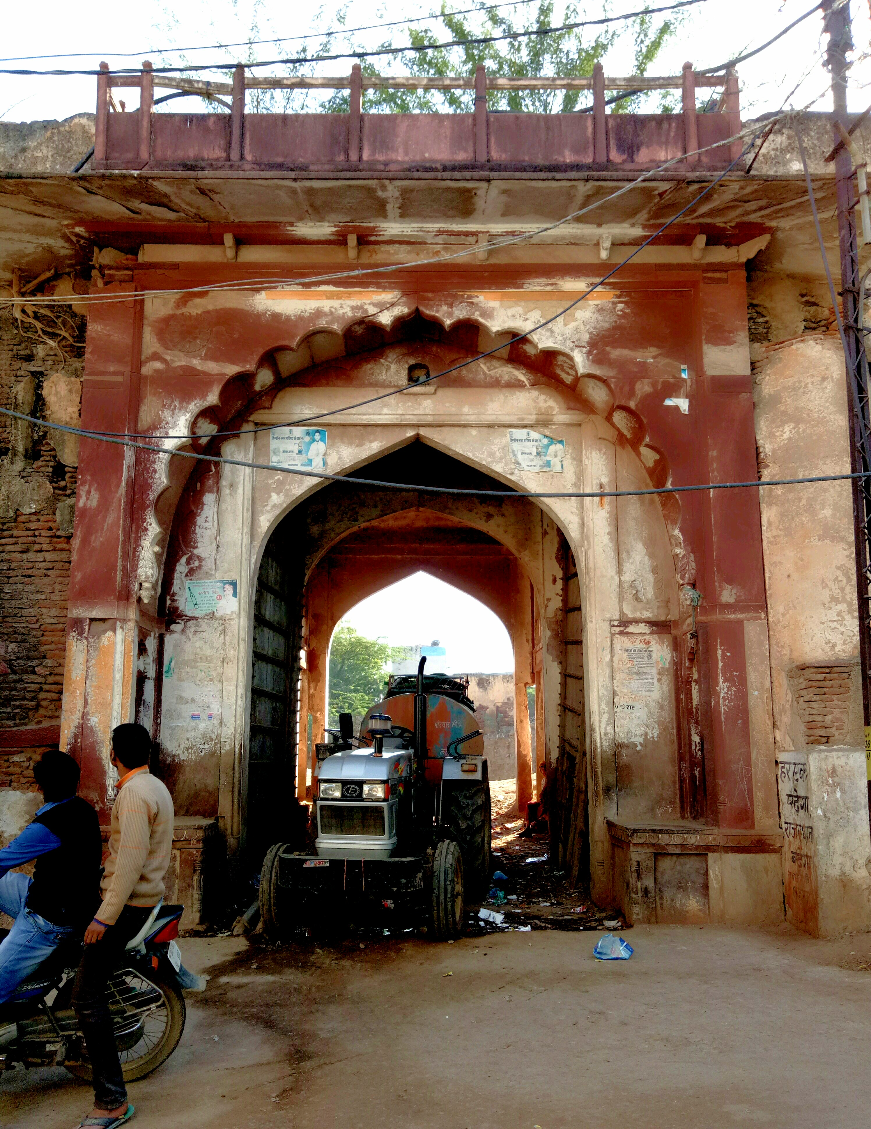 It is the gateway of Hindaun fort it known as Purani kacheri gate.